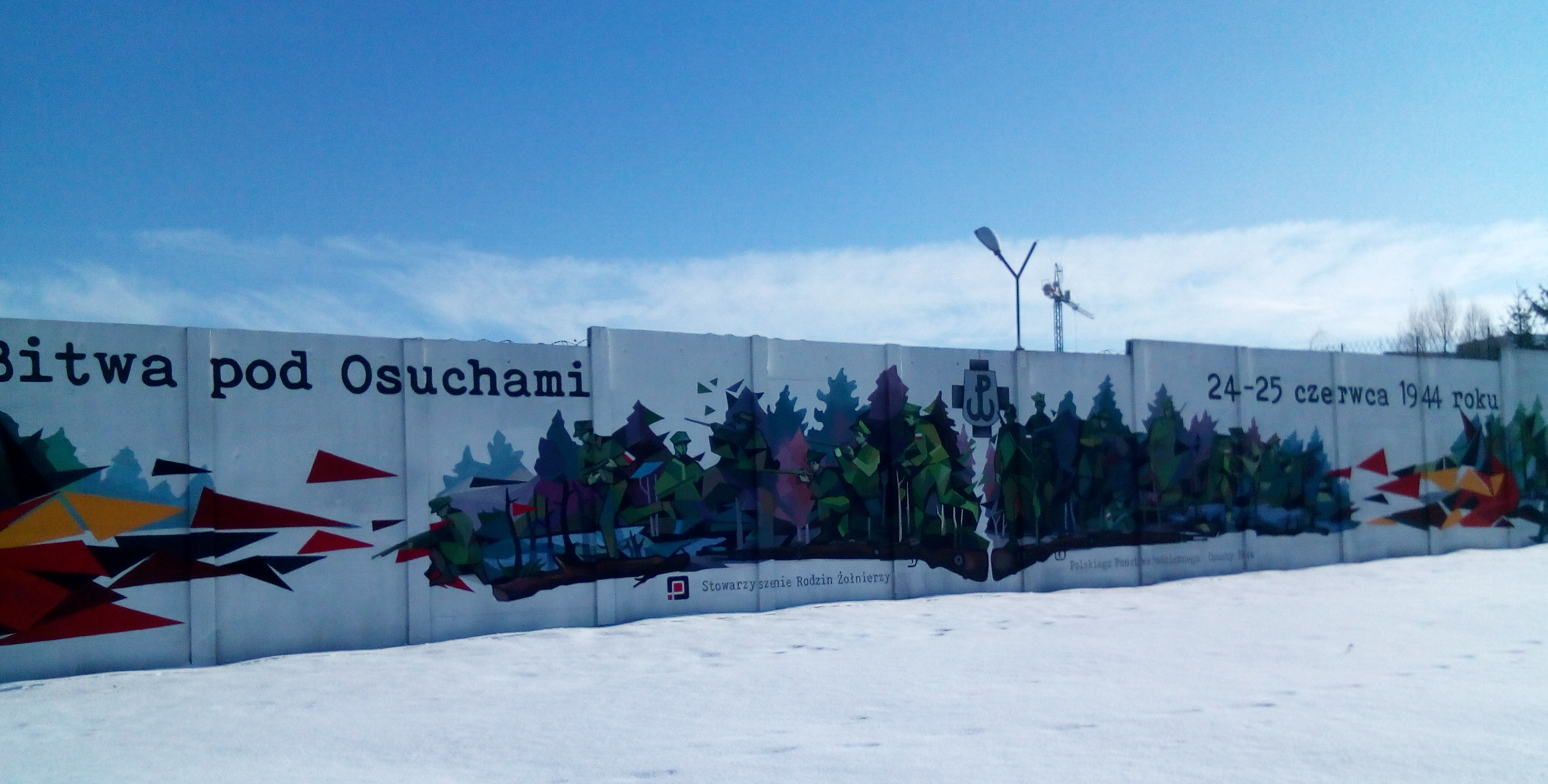 Battle of Osuchy. Mural on the wall at Aleja Jana Pawła 2 and Hrubieszowska street in Zamość.